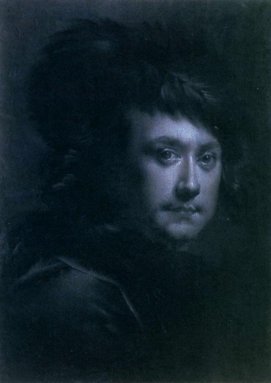 Joseph Wright of Derby. Self-Portrait in a Black Feathered Hat. c.1767-70. Charcoal heightened with white chalk on paper. 53.3 x 36.8 cm. Derby Art Gallery, Derby, UK.